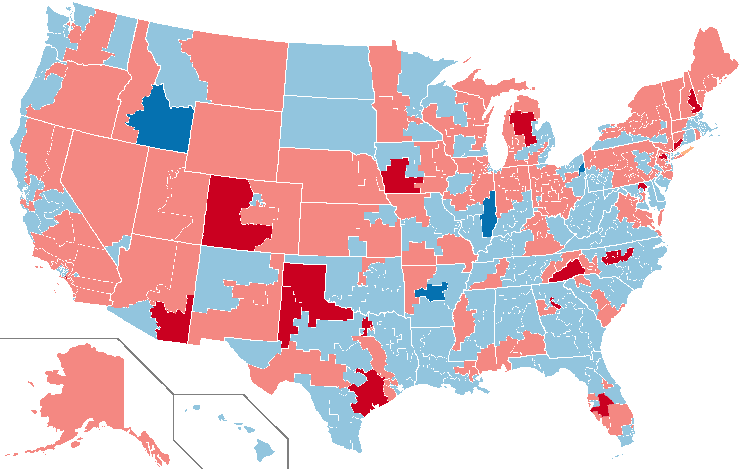 This maps shows the results of the United States house elections of 1984.